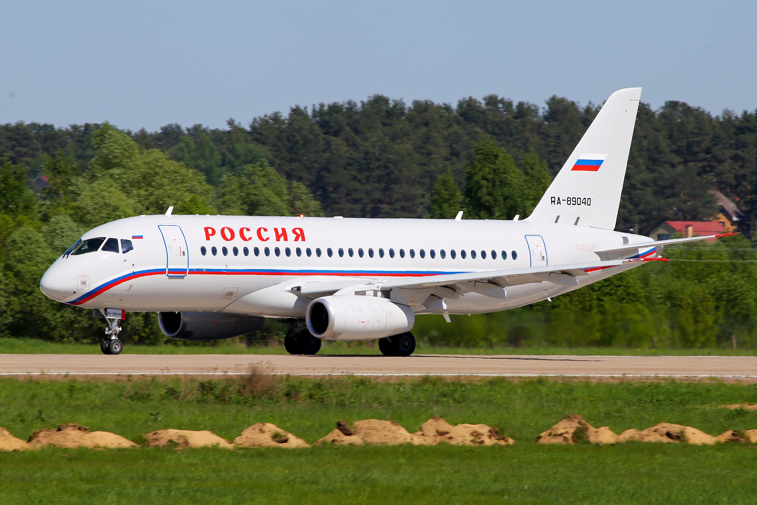 Russia Special Flight Unit Sukhoi Superjet 100-95 (RA-89040) at Zhukovsky